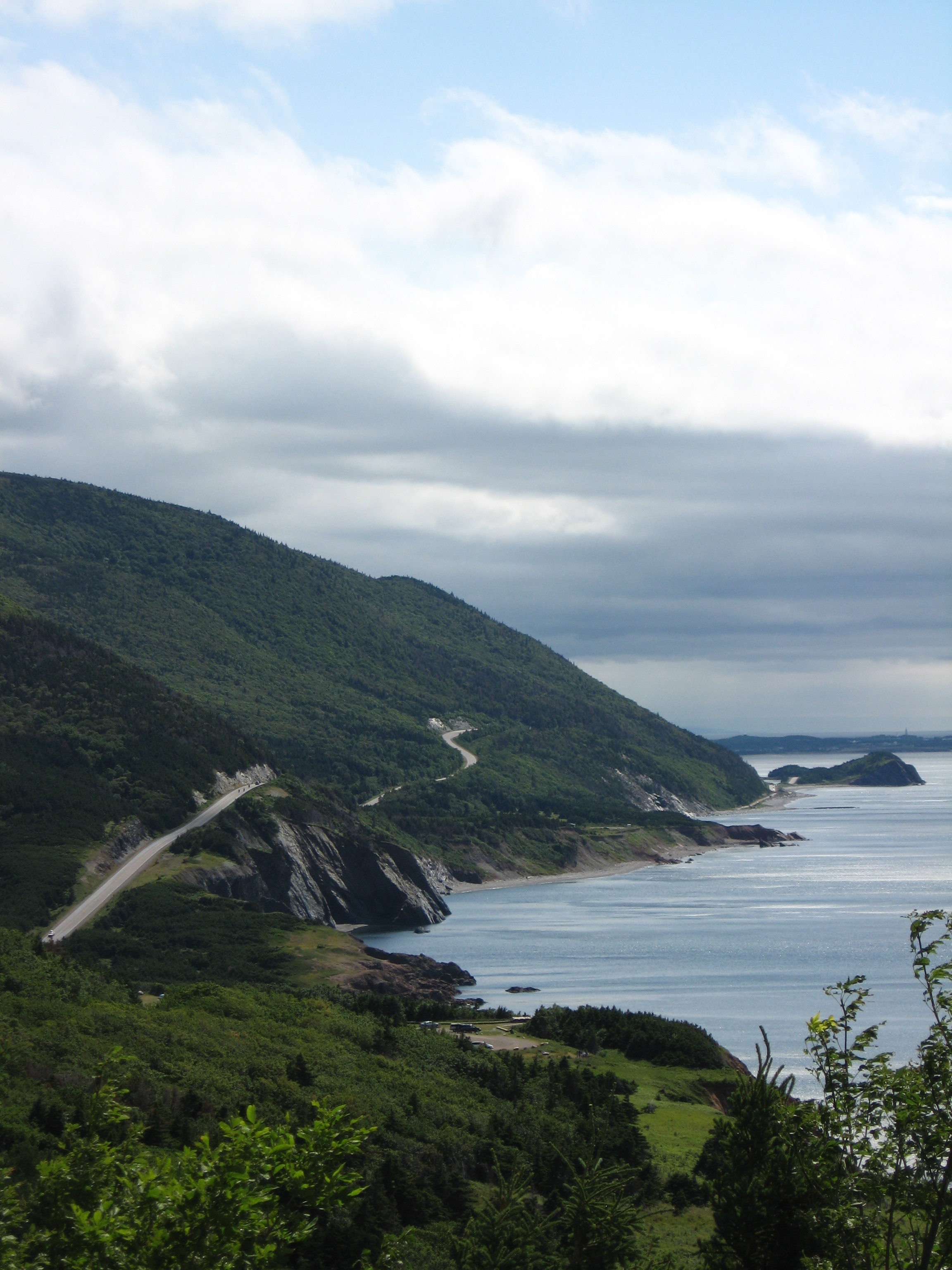 Looking south from the Cap-Rouge lookoff on Cabot Trail, Nova Scotia.